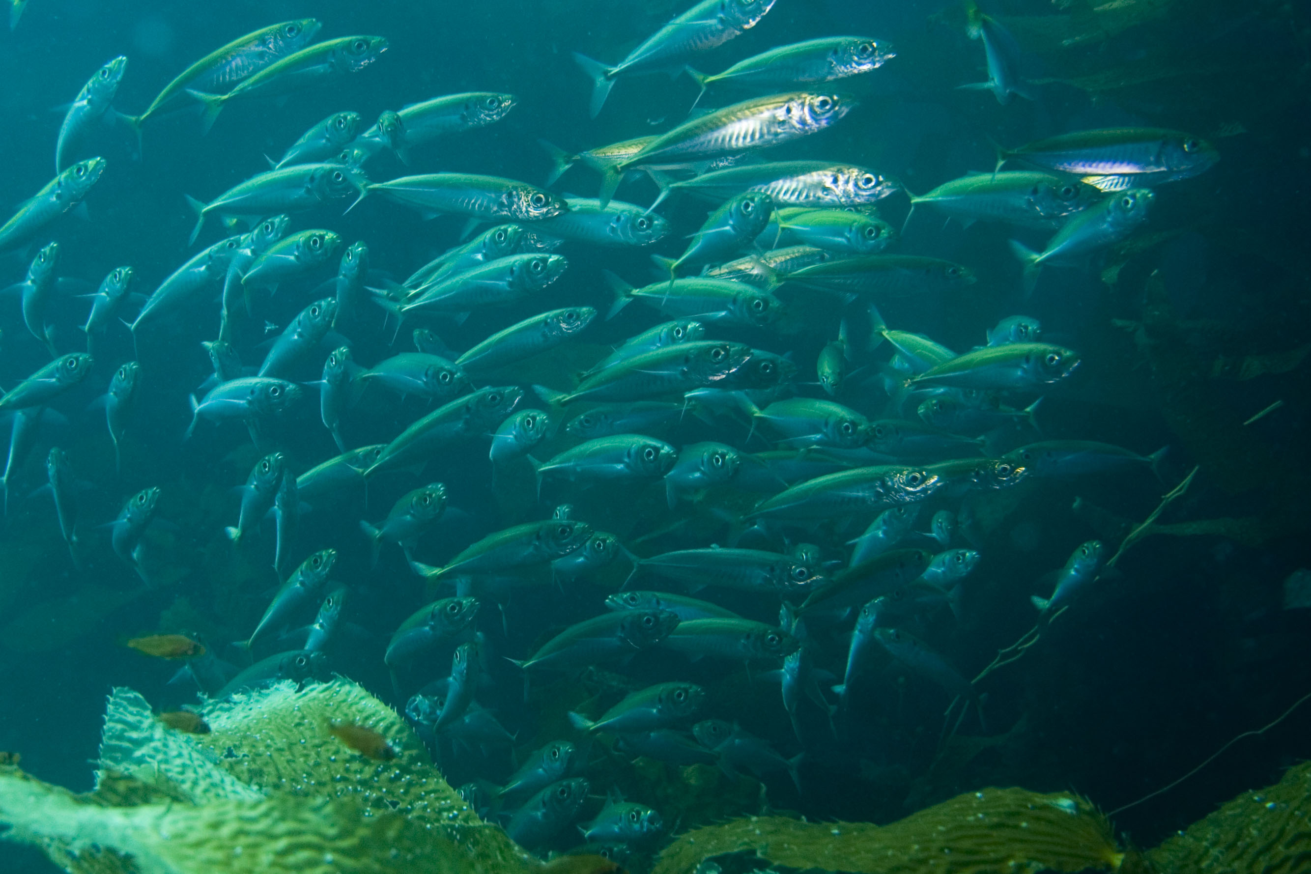 School of Pacific Jack Mackerel (Trachurus symmetricus). Taken at Santa Catalina Island, California.